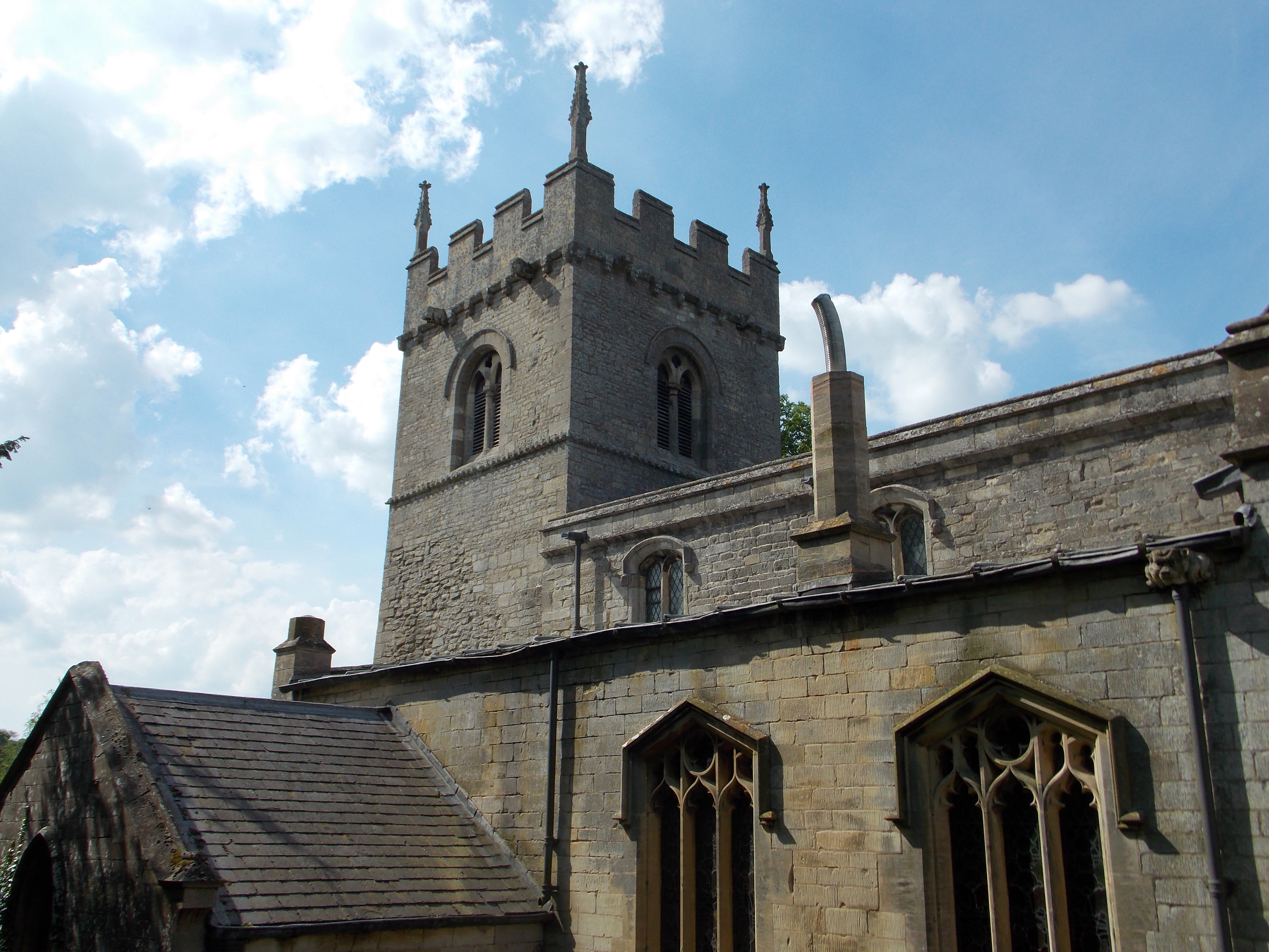 021 Ss Andrew & Mary Church, Stoke Rochford - Clerestory and tower above the South Aisle and Vestry from the south-east